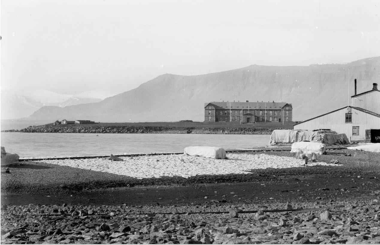 Photograph of the Icelandic leper colony in Reykjavík, Iceland taken by Magnús Ólafsson in 1910. It was built in 1898 and was in operation until 1943. It has since been demolished.